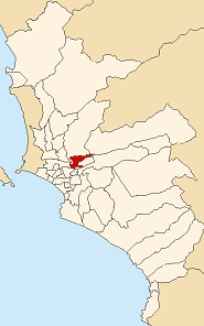 Map of Lima highlighting the El Agustino district in Lima.